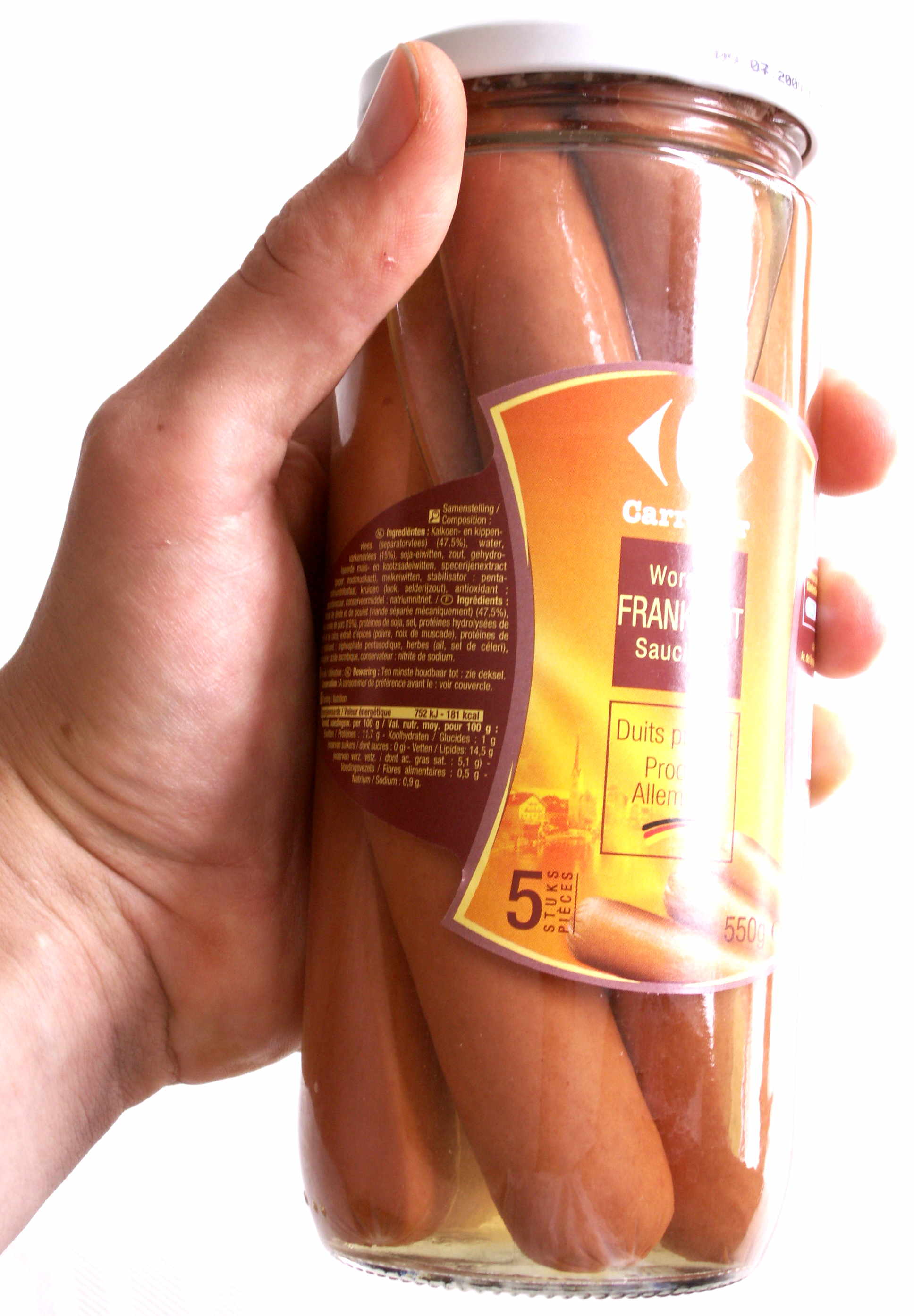 A picture of a jar with frankfurter sausages. These sausages are smoked, not grease and contain a lot of nutrients (protein, ...) yet fairly low amounts of calories (for meat that is). They are made of mostly turkey and chicken.